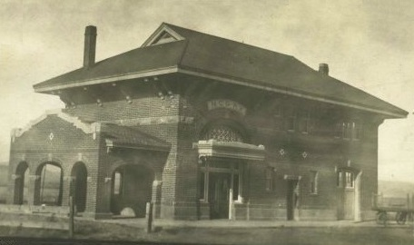 Postcard photograph of Nevada-California-Oregon Railway passenger station in Lakeview, Oregon; postmarked 12 January 1915Architect Frederic DeLongchamps